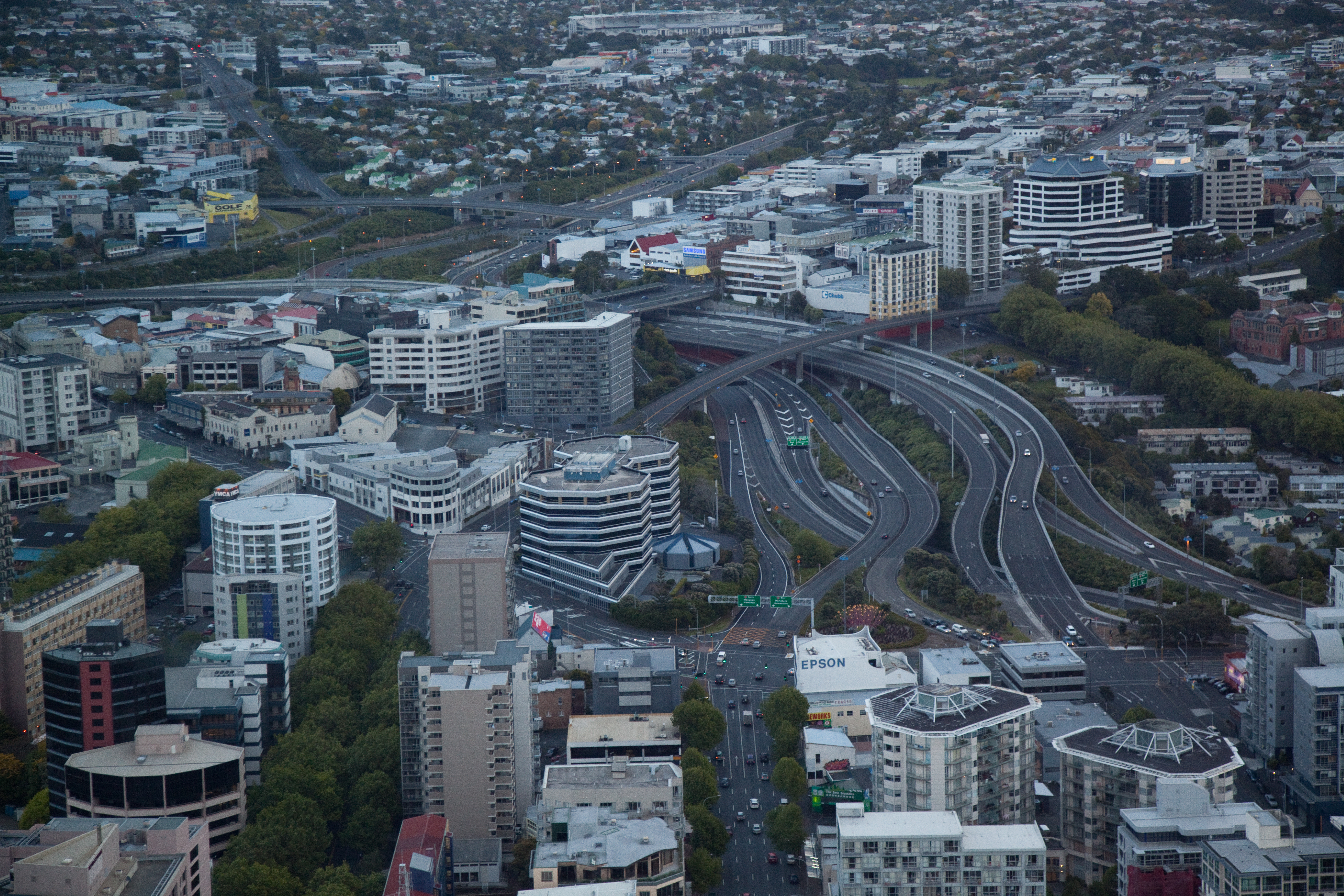 Central Motorway Junction, the intersection of New Zealand State Highways 1 and 16. Taken from the Sky Tower